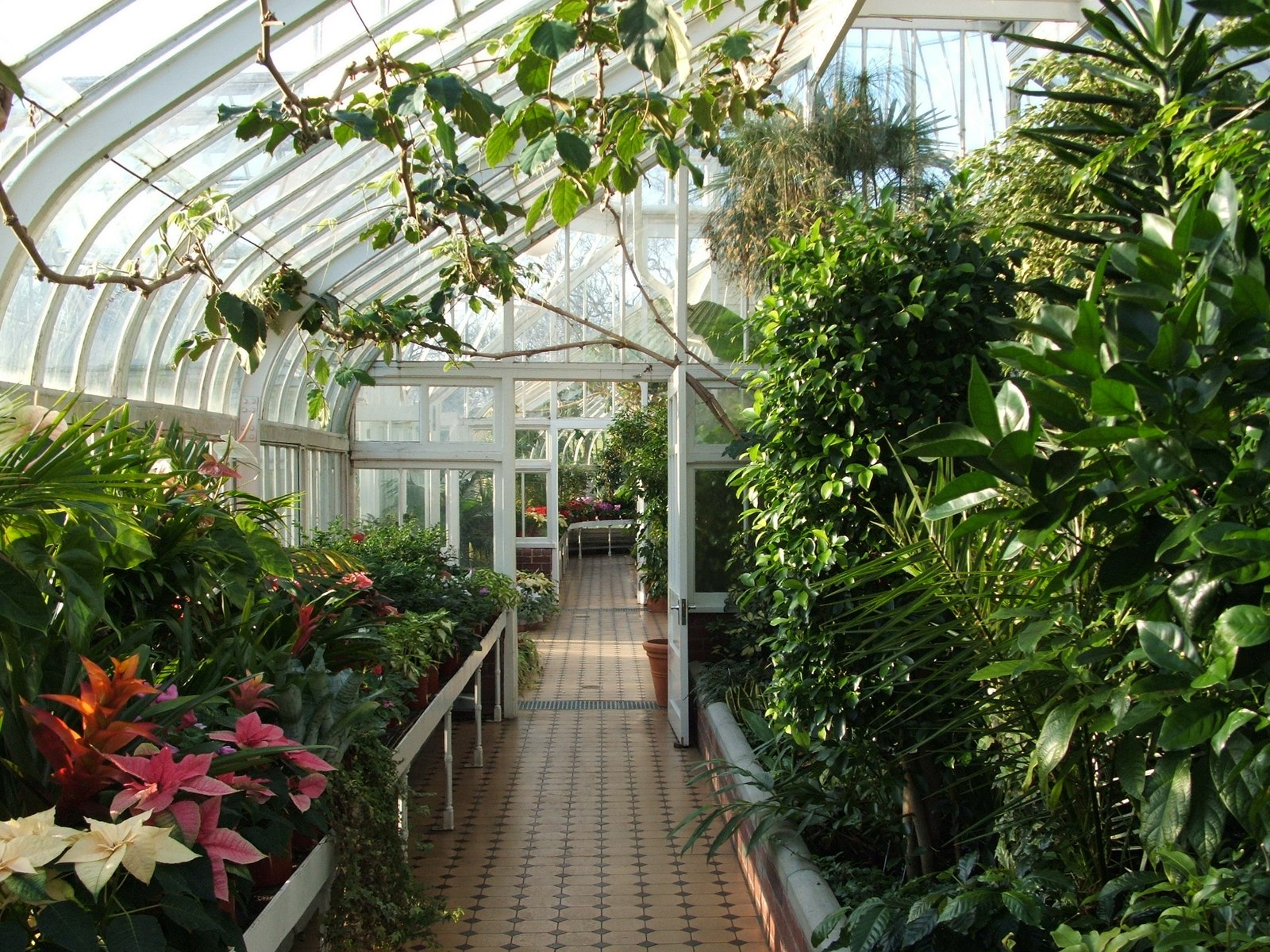 Tollcross Park - inside the Winter Gardens. See: 946227.